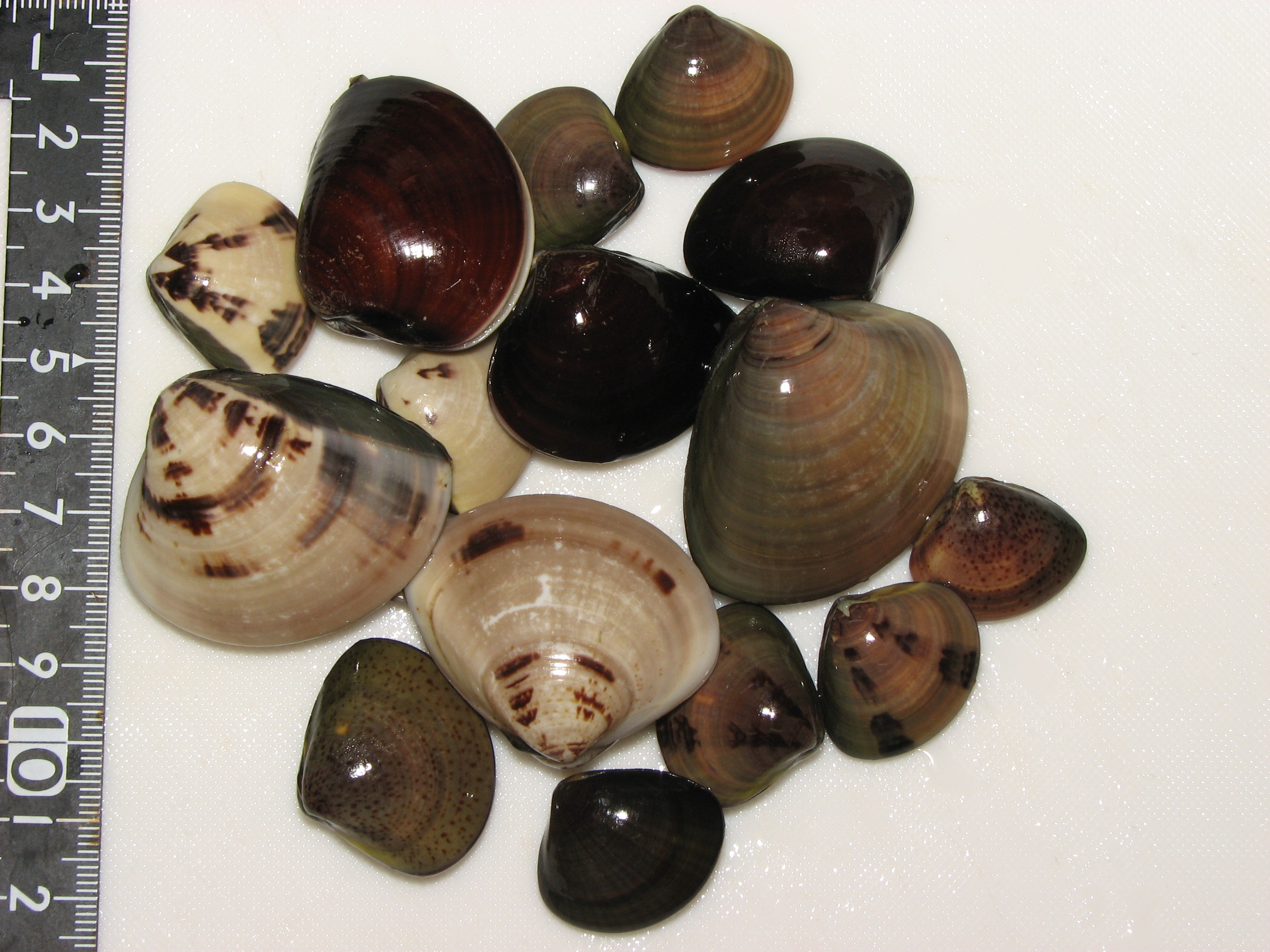 Meretrix lusoria, Kumamoto pref, Japan